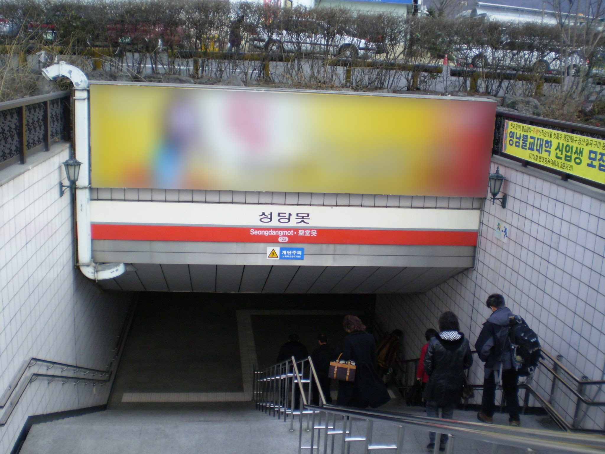 An entrance to Seongdangmot subway station (line 1) in Daegu, South Korea.